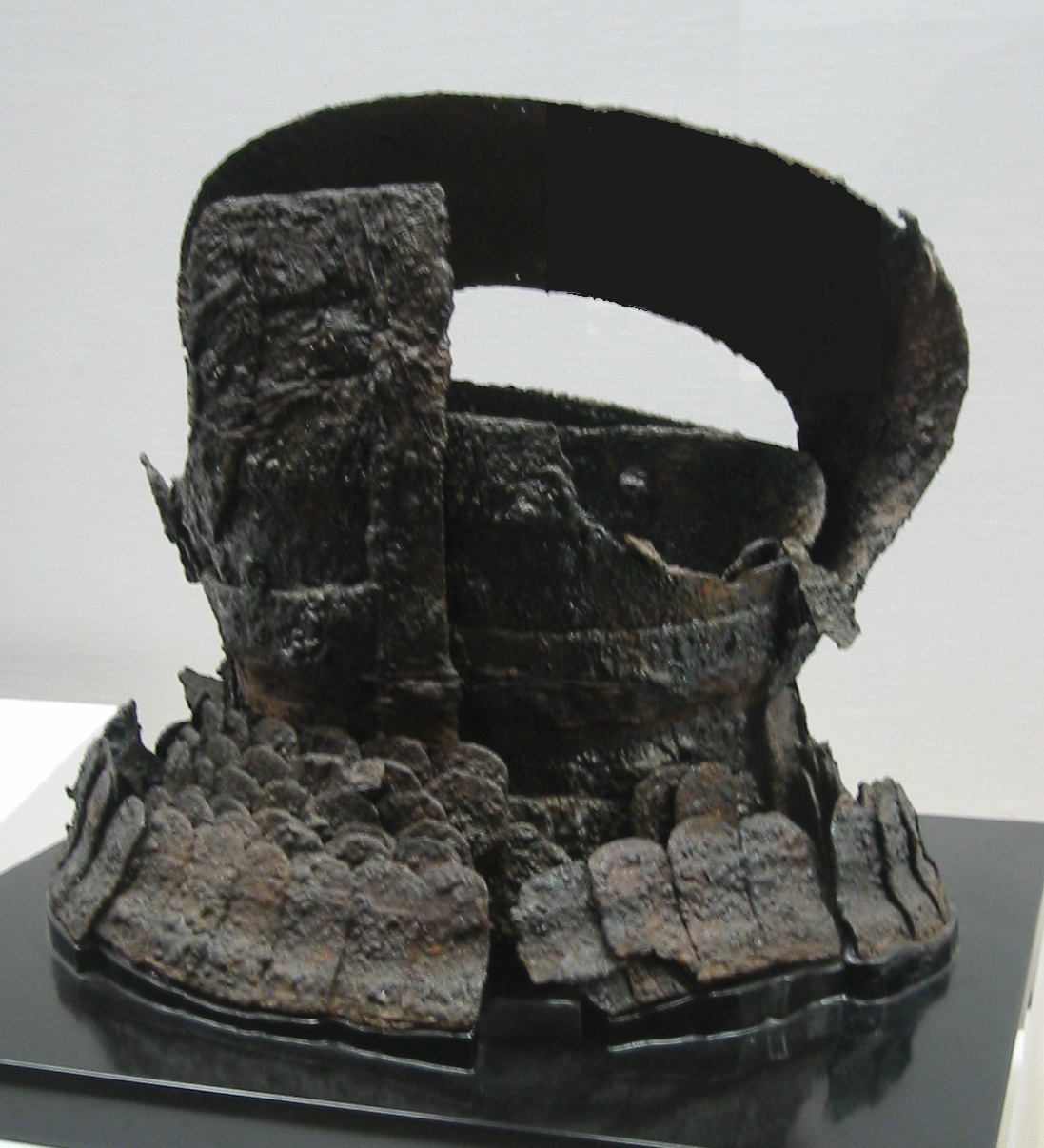 Kofun period armor, amde of iron plate sewn with leather strings. 5th century Japan.挂甲